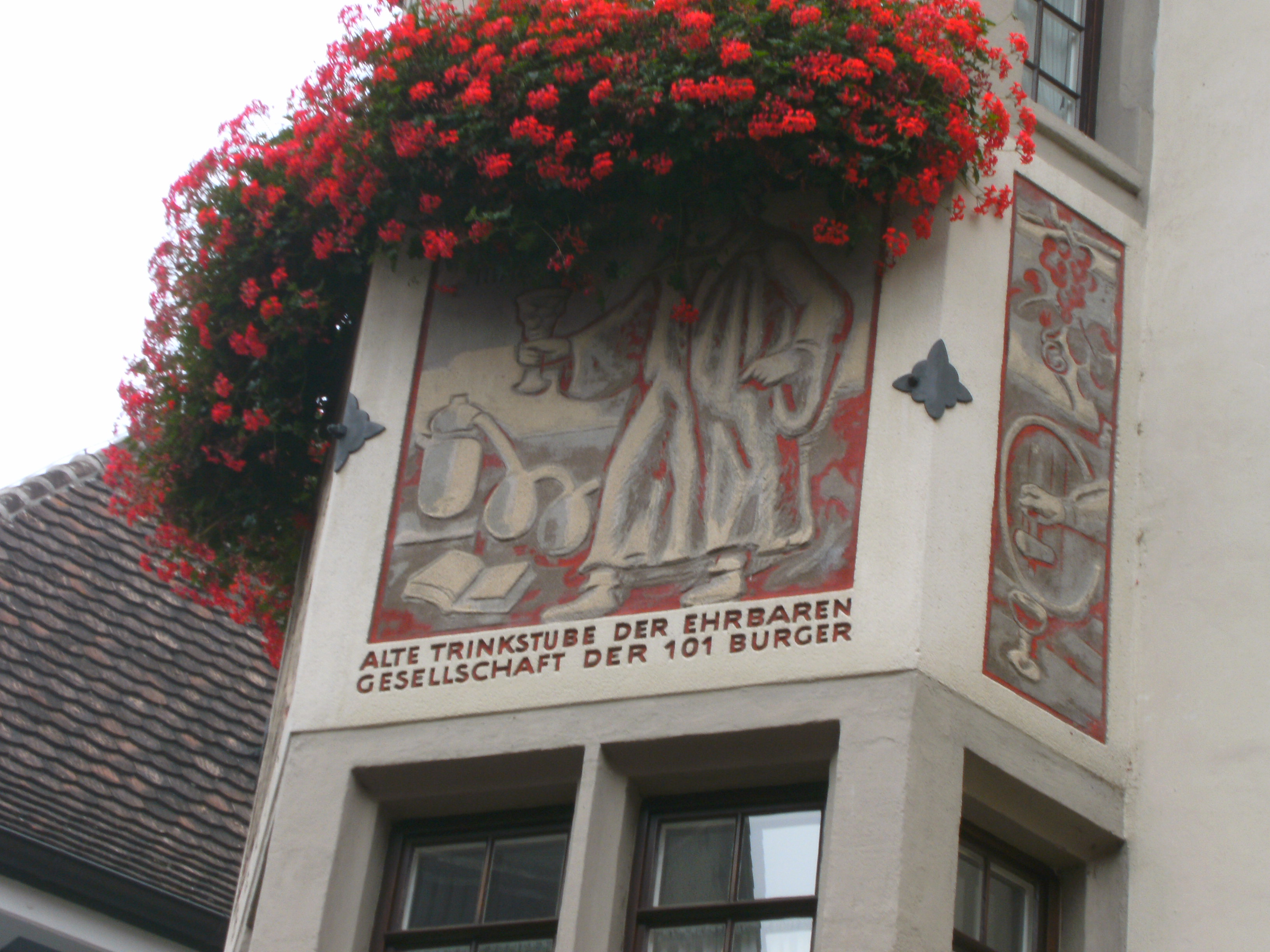 Society of 101 townsmen in Meersburg, Germany: Meeting point in the Gasthof Zum Bären, Meersburg.